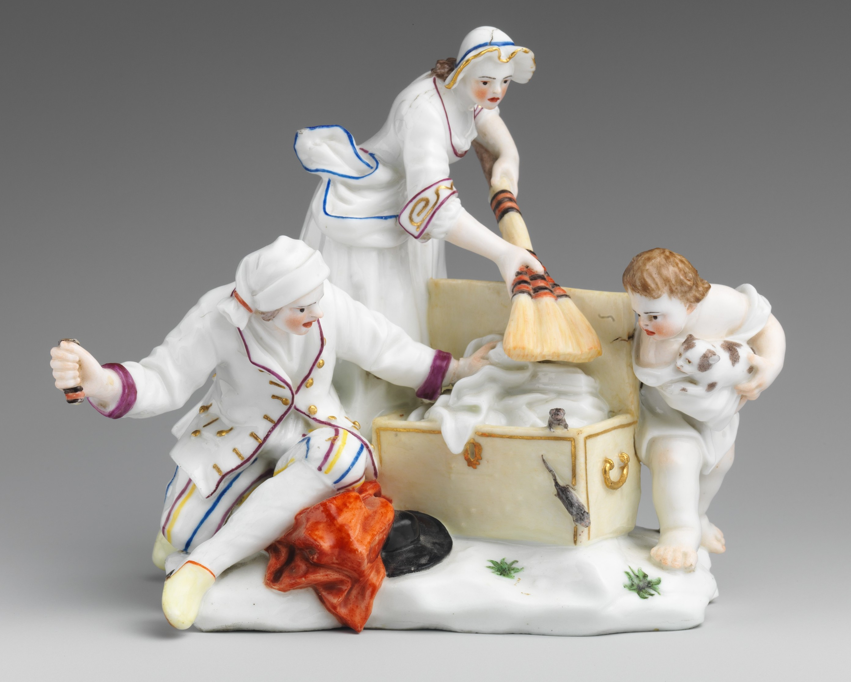 Italian, Naples; Figure group; Ceramics-Porcelain